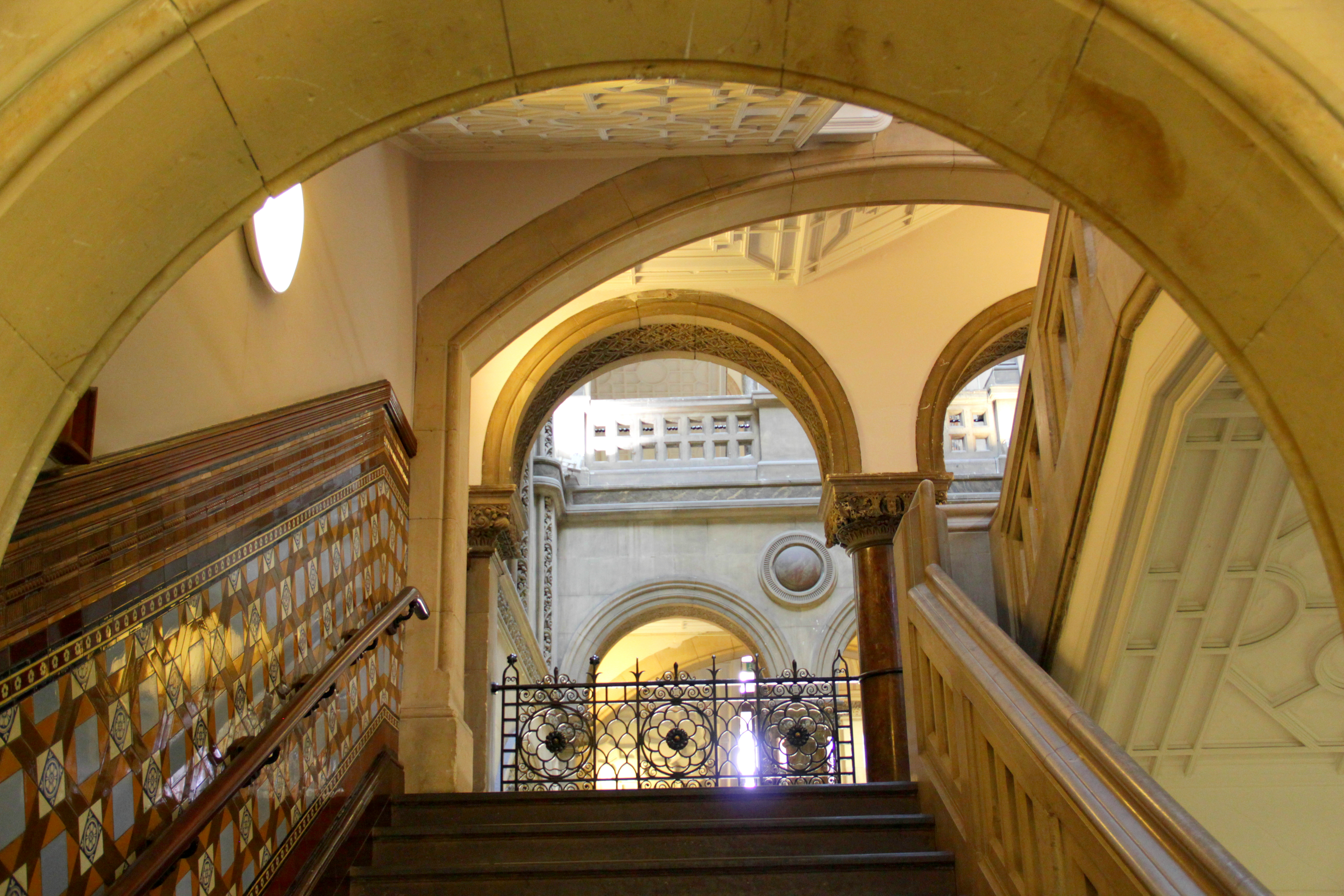 Interior of the former Municipal Buildings (now the Central Library), Leeds, West Yorkshire, England, built 1879-1884 to the design of George Corson. The general interior carving was executed by a team led by John Wormald Appleyard. The alabaster arch in the main entrance was made by Farmer & Brindley of London, and the reading room (now cafe) medallions were carved by Benjamin Creswick. George Wilson made the leaded clerestory windows of the original reference library, and Powell Bros made the rest of the stained glass and leaded lights. Doulton supplied the terracotta tiles in what is now (2019) the art library. Ceramic wall and floor tiles were supplied by E. Smith of Coalville, Leicester, and J. Taylor of Leeds. Curtis & Son made the bookcases and mirror screens in the gallery of the original reference library (as of 2019 the family history department). Jones of Manchester made the wrought-iron gates and railings outside, but Smith & Sons of Birmingham made the entrance gates, interior grilles and original door furniture (only a few of these last items remain). The interior was originally decoratively painted, in gold and colours, by J.T. Pollard of Leeds. Showing stairway, with atrium in front.